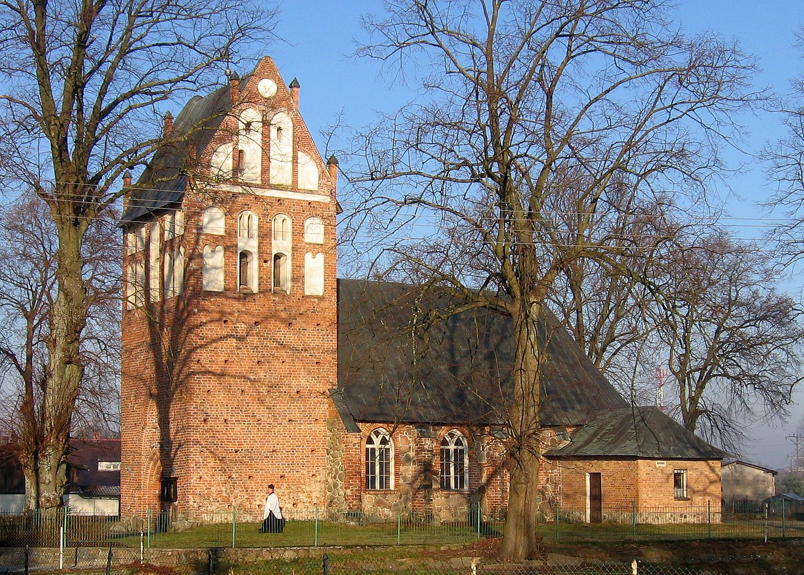 Transfiguration Roman Catholic Church in Wrzosowo, Poland